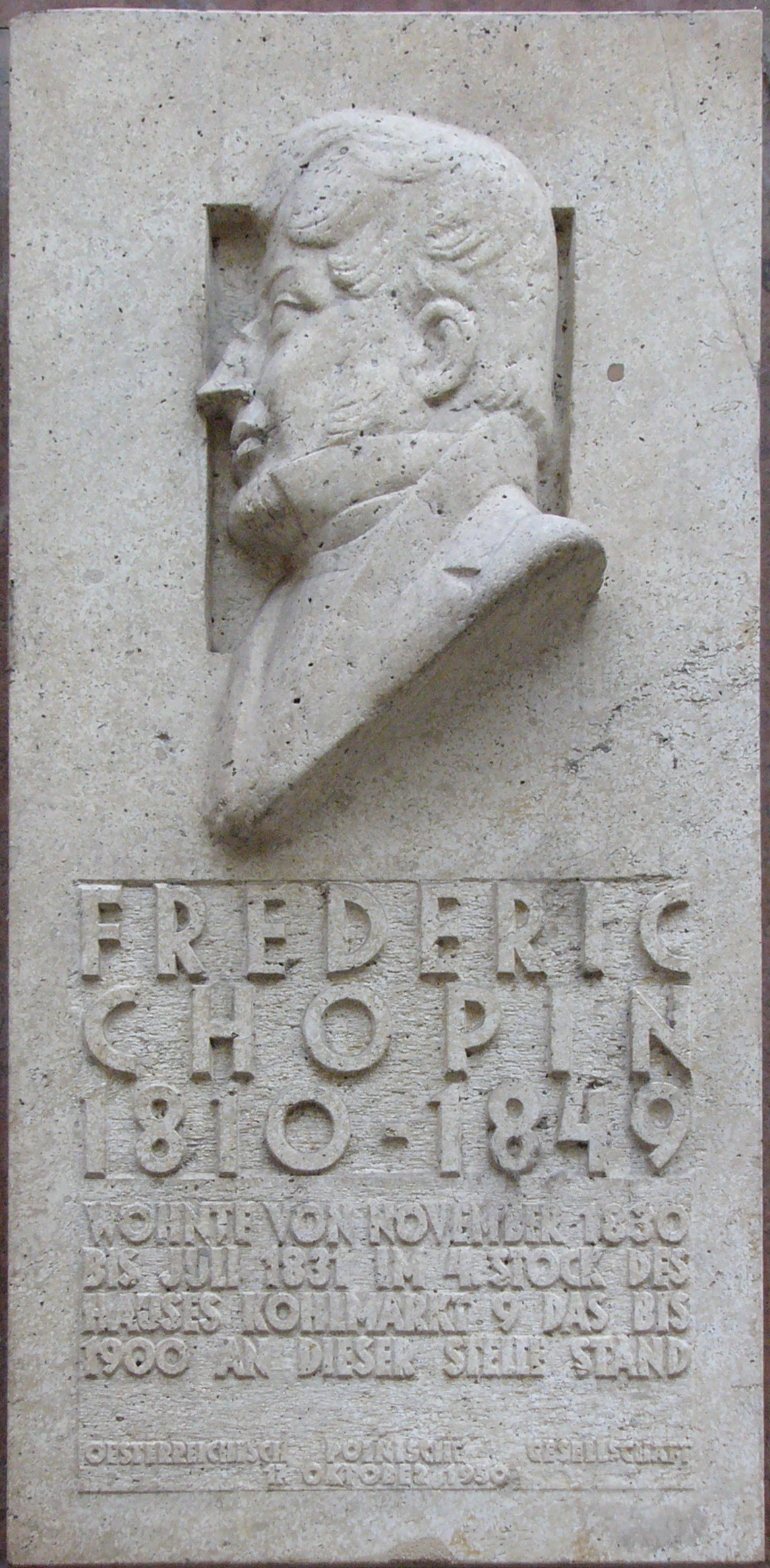 Memorial plaque devoted to Frederic Chopin in Kohlmarkt in Wien (Austria).